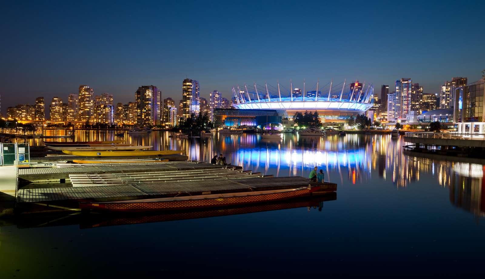 Vancouver from science world